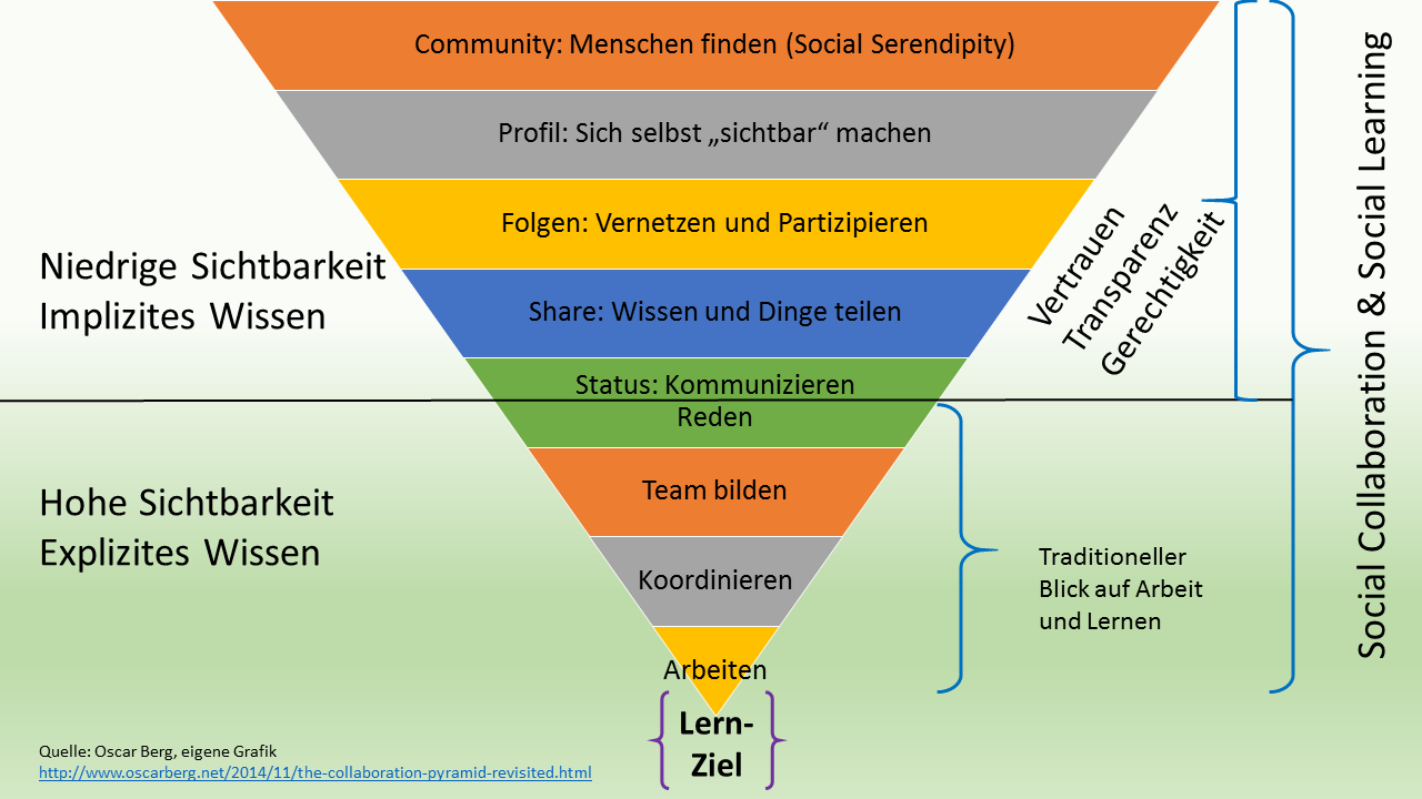 Attempt to show graphically the connections or correlations between Social Learning and Social Collaboration as well as between tacit knowledge and explicit knowledge (in German).